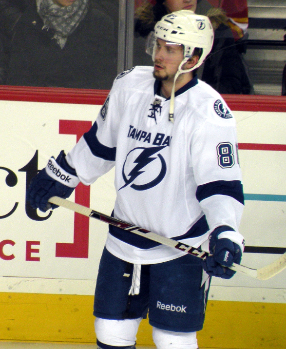 Tampa Bay Lightning forward Nikita Kucherov prior to a National Hockey League game in Calgary.